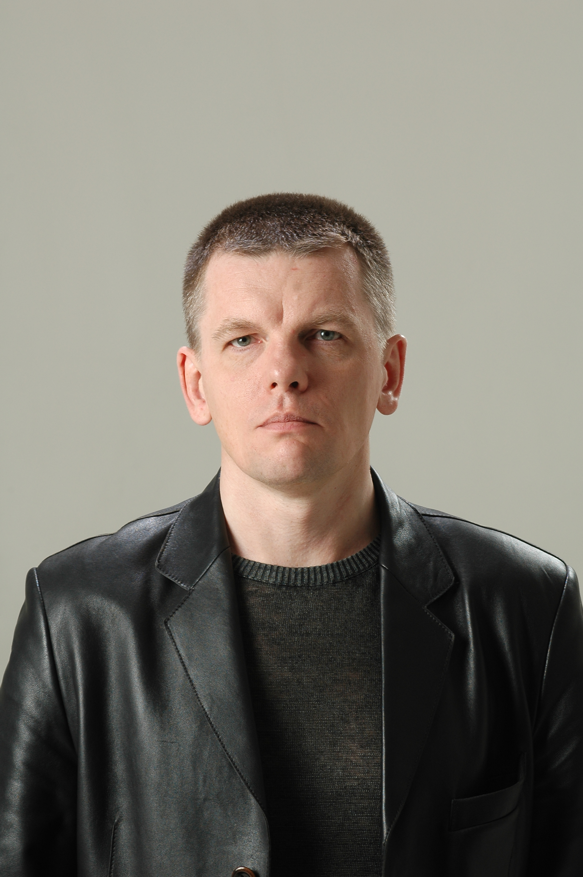 Deputy of the 9th Saeima and former Prime Minister of Latvia Einars Repše